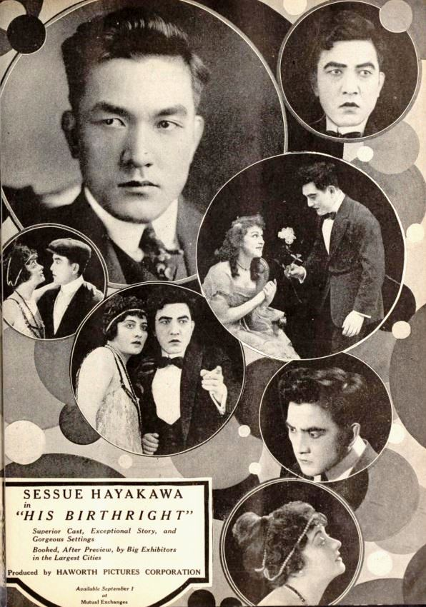 Advertisement for the American drama film His Birthright (1918) with Sessue Hayakawa, Marin Sais, and Mary Anderson, on page 3 of the August 31, 1918 Exhibitors Herald.